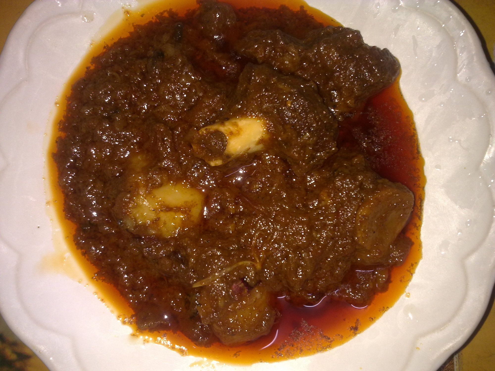 Traditional and popular Bengali dish. Spicy mutton (mainly chevon) cooked in various Indian spices.